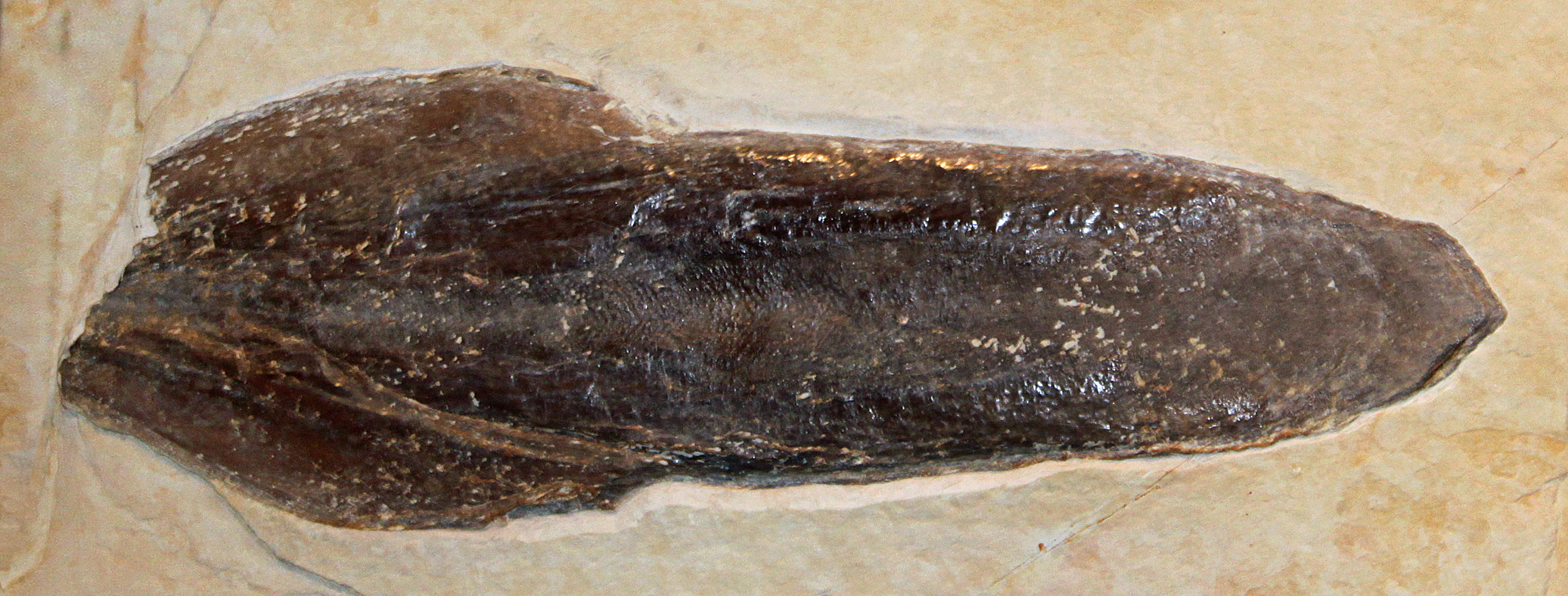 Solnhofen Plattenkalk, Tithonian, Upper Jurassic, Solnhofen; Museum für Naturkunde Berlin.